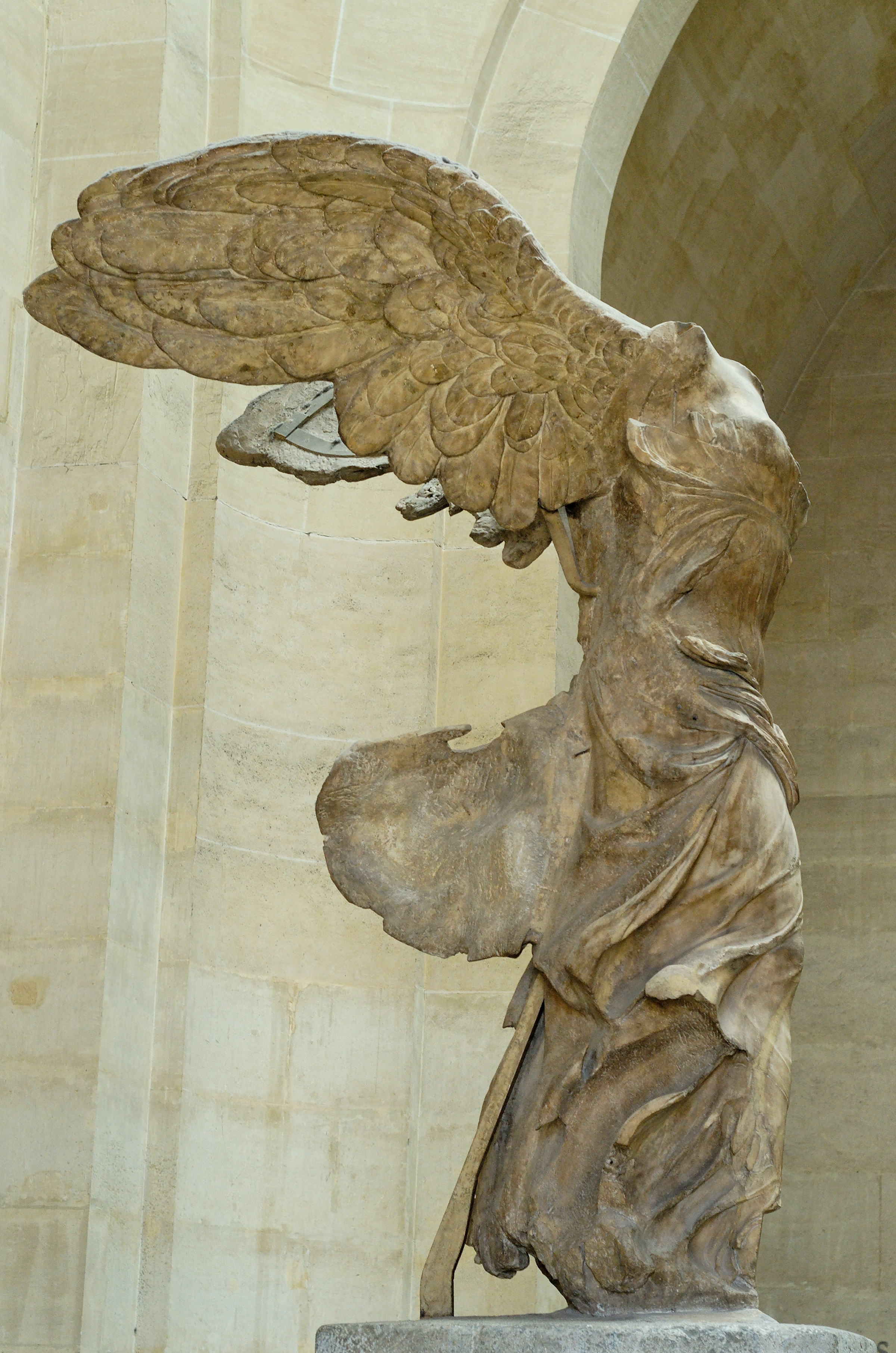 Winged Nike of Samothrace. Parian marble, ca. 190 BC? Found in Samothrace in 1863.